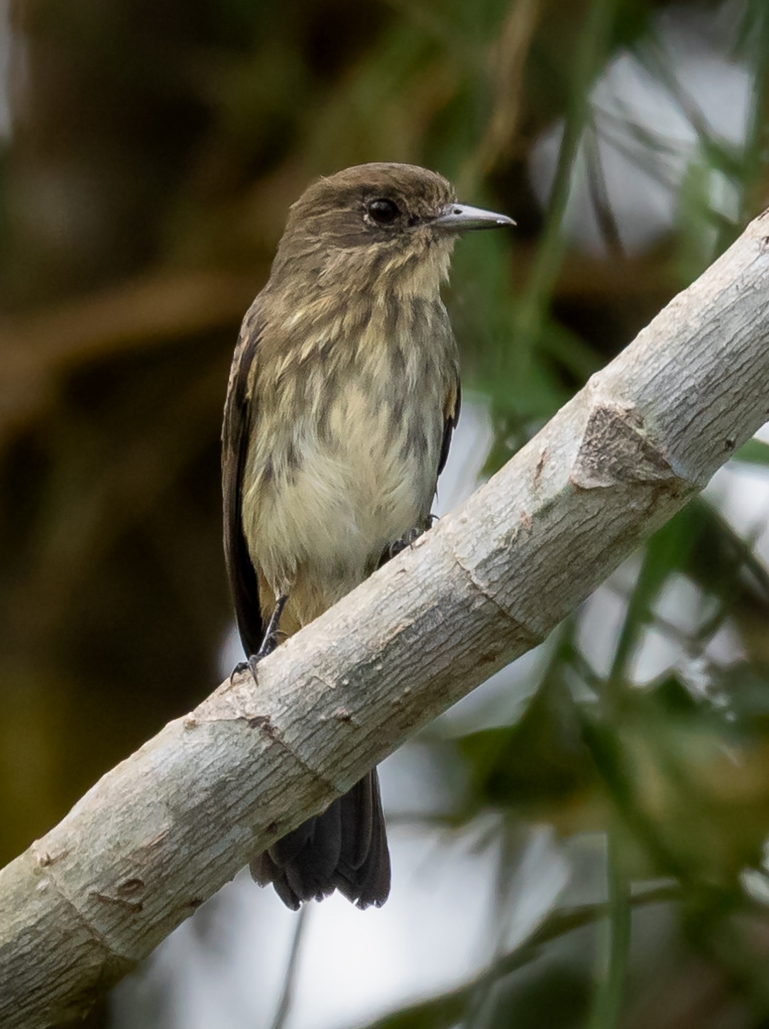 Knipolegus orenocensis - Riverside tyrant (female); Marchantaria island, Iranduba, Amazonas, Brazil